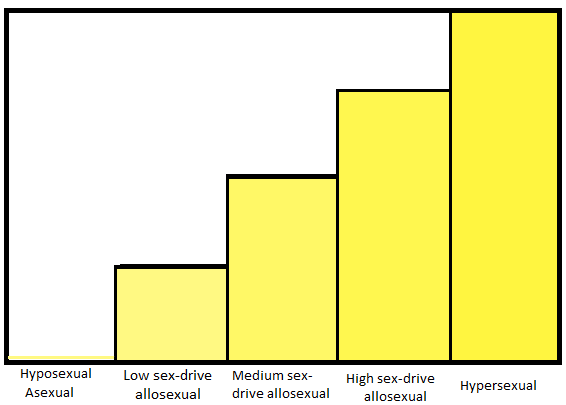 hyposexual, allosexual graph